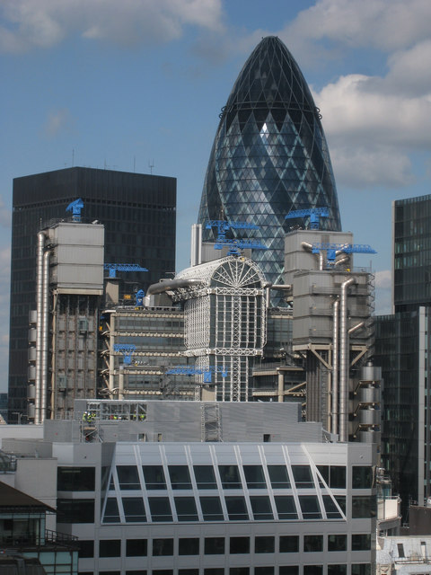 Lloyds Building & The Gherkin Two of London's most iconic modern buildings.